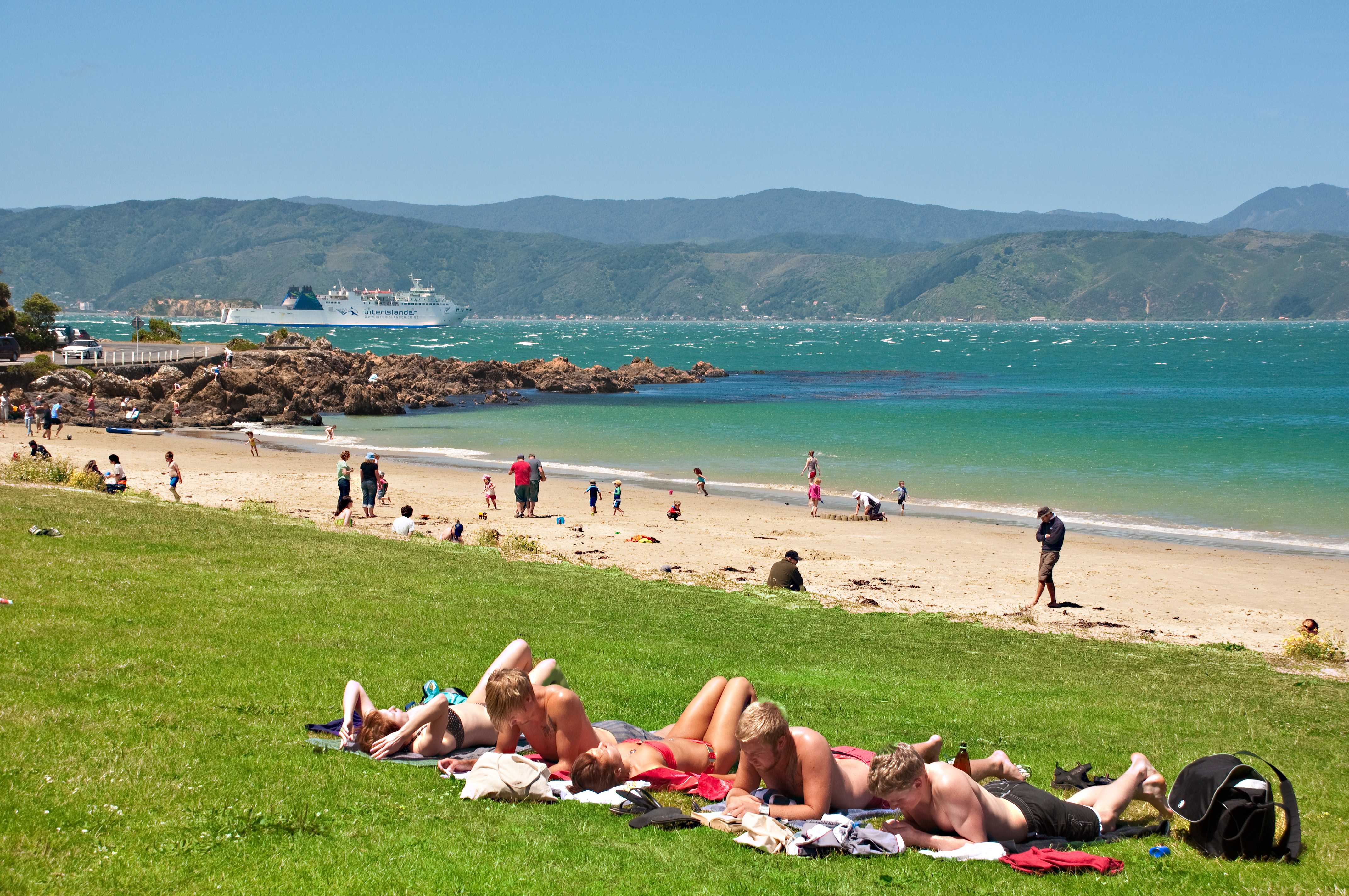 Scorching Bay